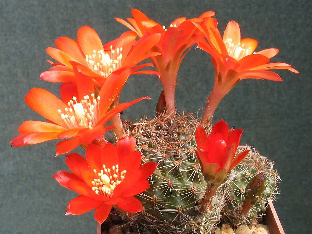 Rebutia brunnescens (Lat. "brownish"), according to Urs Eggli, Leonard E. Newton: Etymological Dictionary of Succulent Plant Names. Springer 2004. ISBN 3-540-00489-0.Rebutia brunescens, according to IPNI